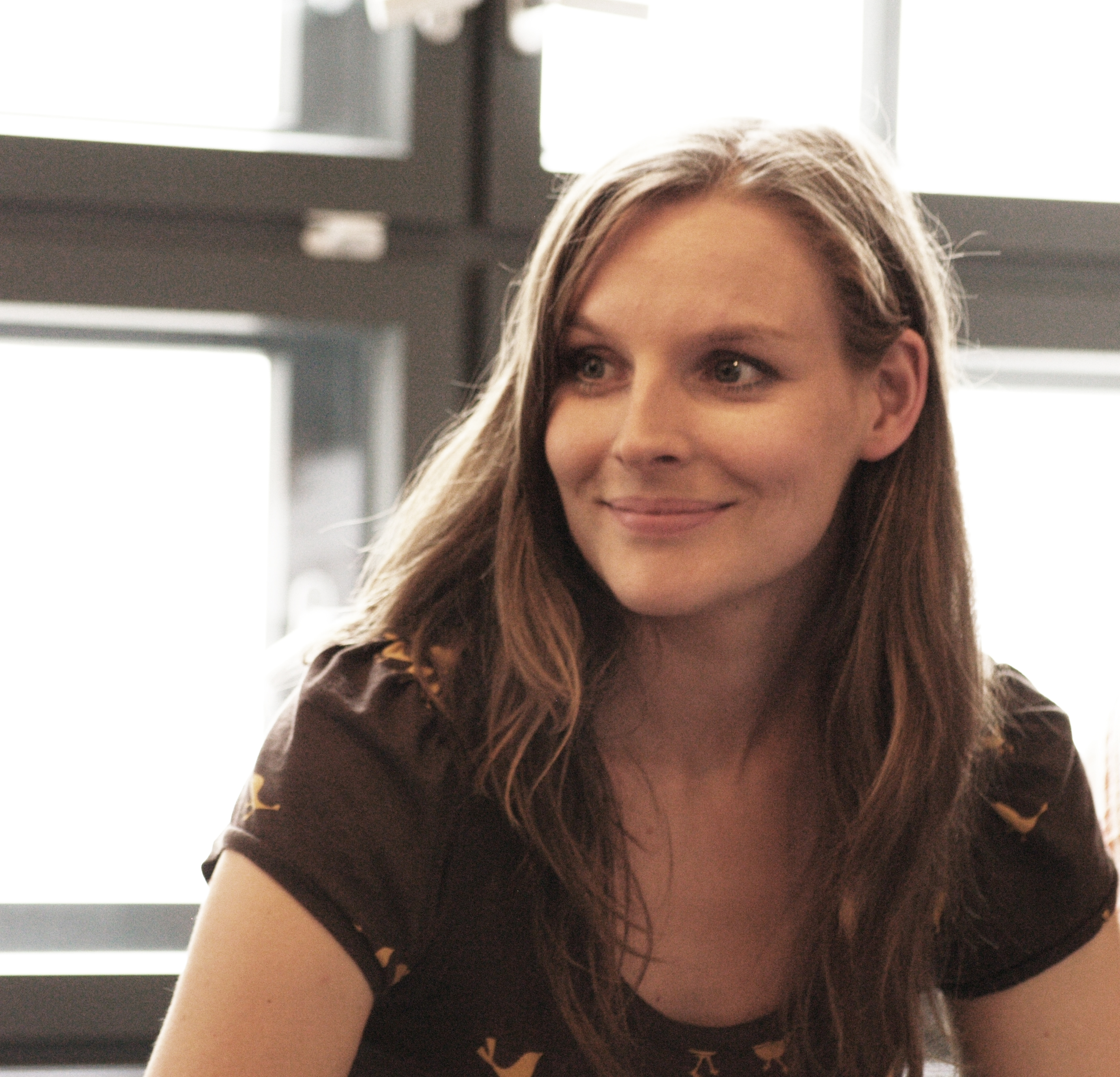 Judith Holofernes - Lead singer of the german pop band "Wir sind Helden"